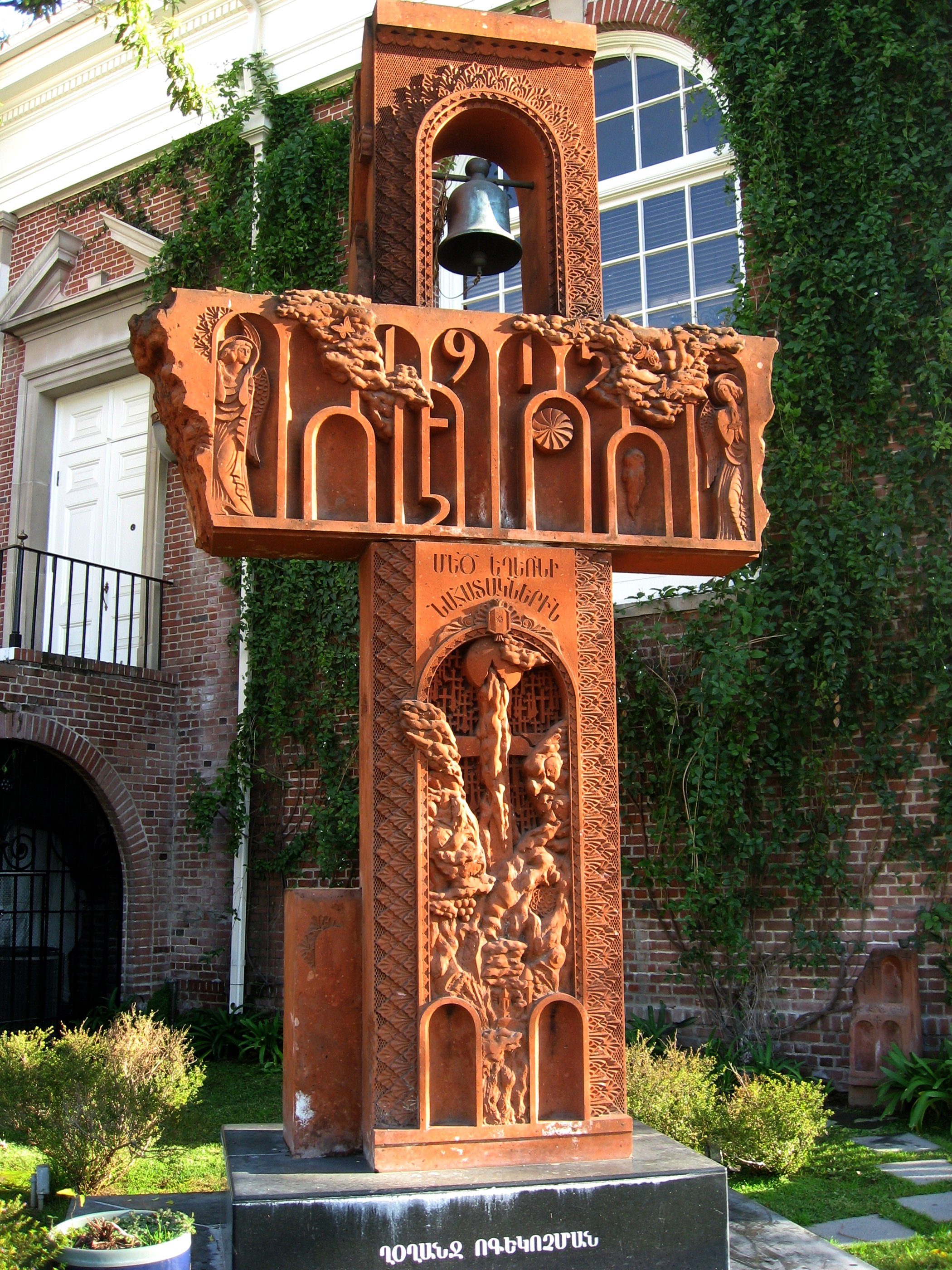 The Armenian Genocide memorial (an Armenian cross stone, or "khatchkar" in Armenian) at St Mary's Armenian Apostolic Church in Glendale, California. Carved by G. Gaspar (Gharibyan) in 2000.